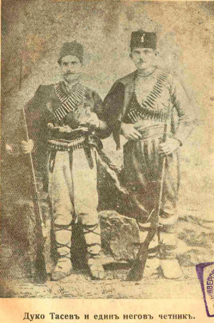 Duko Tasev